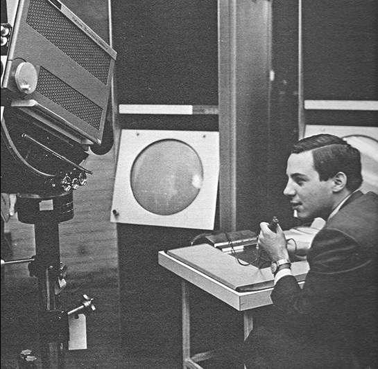 Description from source: "Harry Lewis '68, AM '73, Ph.D. '74 poses with his senior thesis project, SHAPESHIFTER. The program ran on a PDP-1 computer equipped with graphical displays. As Harvard Magazine described it at the time: 'The program accomplishes rapid transformations in the complex number plane, and allows the user to quickly visualize the results of a specific mathematical transformation. The transformation equations are inputed [sic] to the computer by means of a drawing "pen" ... and converted into machine-recognizable code. The actual computations are then controlled by this code.' "